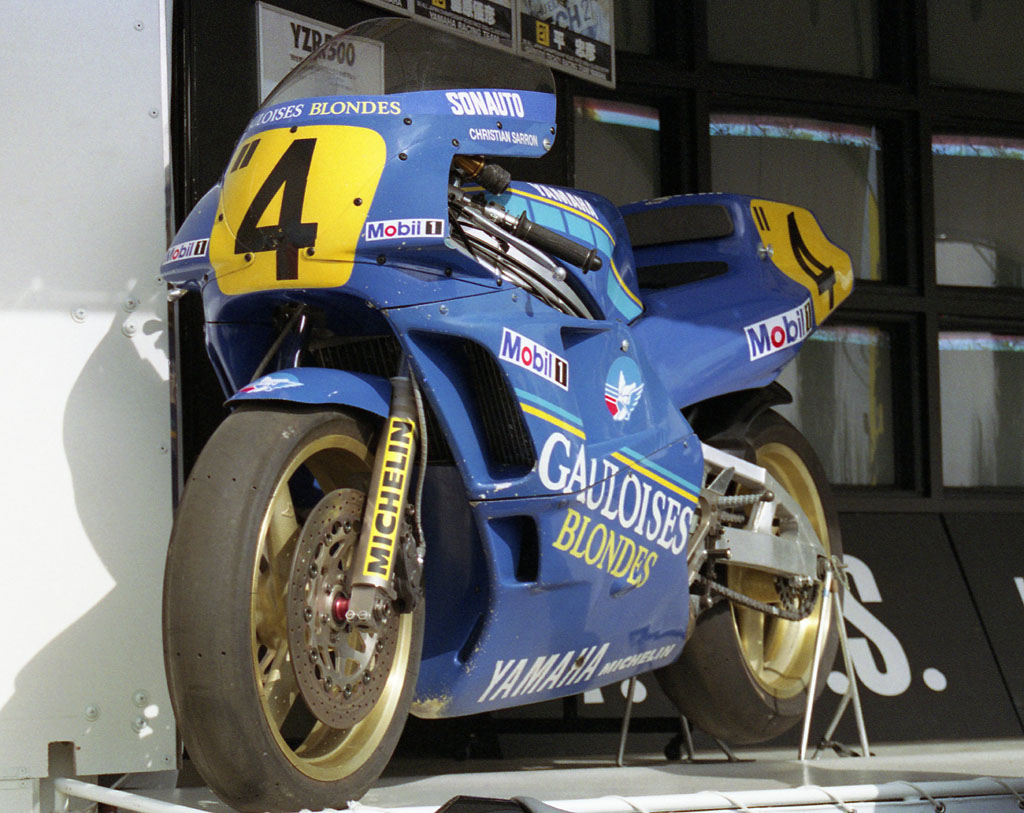 Yamaha YZR500 (1989, Christian Sarron)